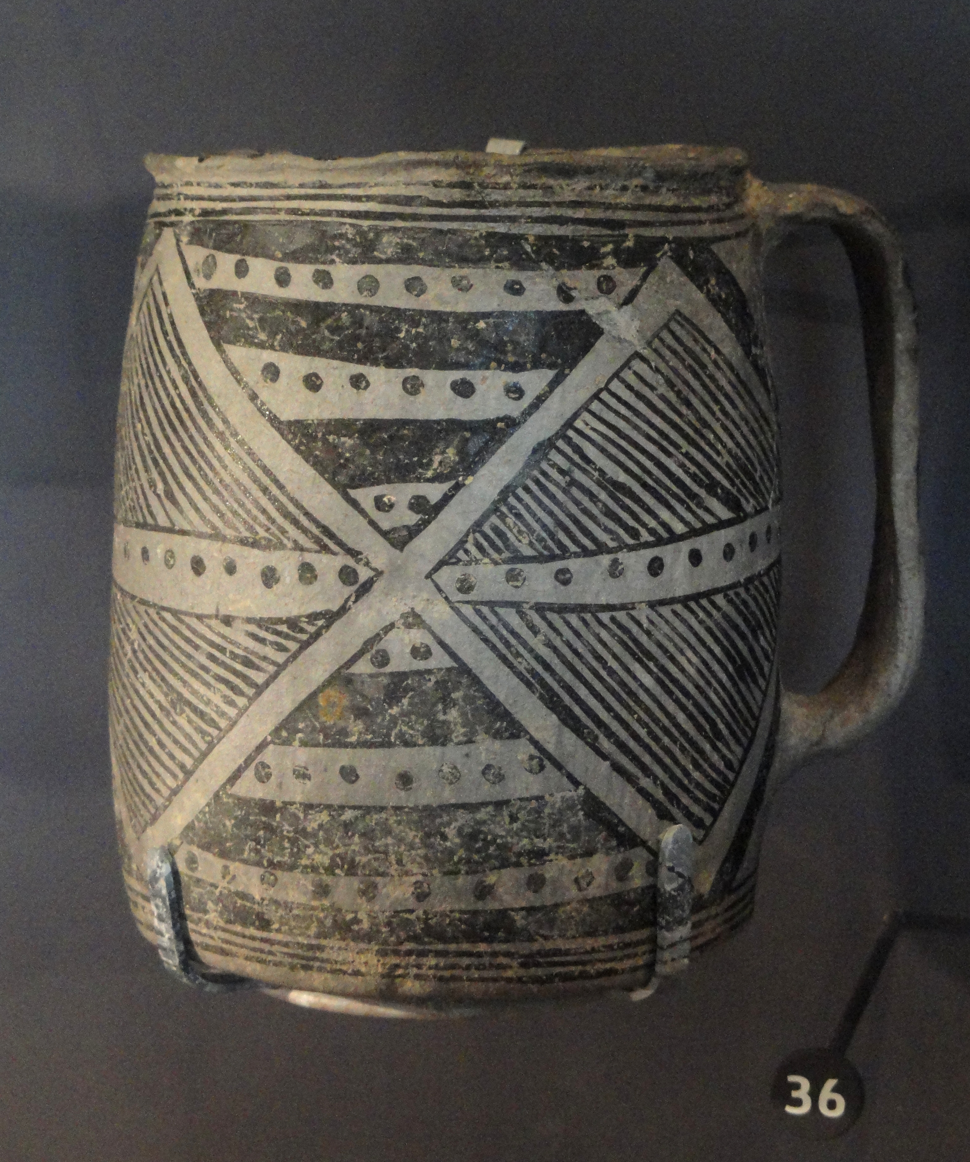 Exhibit in the Natural History Museum of Utah, Salt Lake City, Utah, USA. This item is old enough so that it is in the public domain.